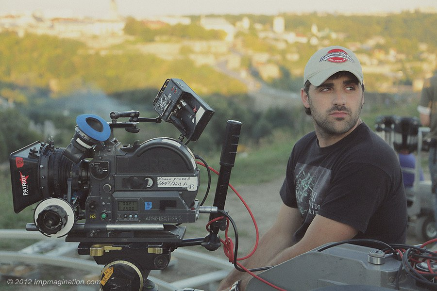 Ukrainian film director, screenwriter, producer